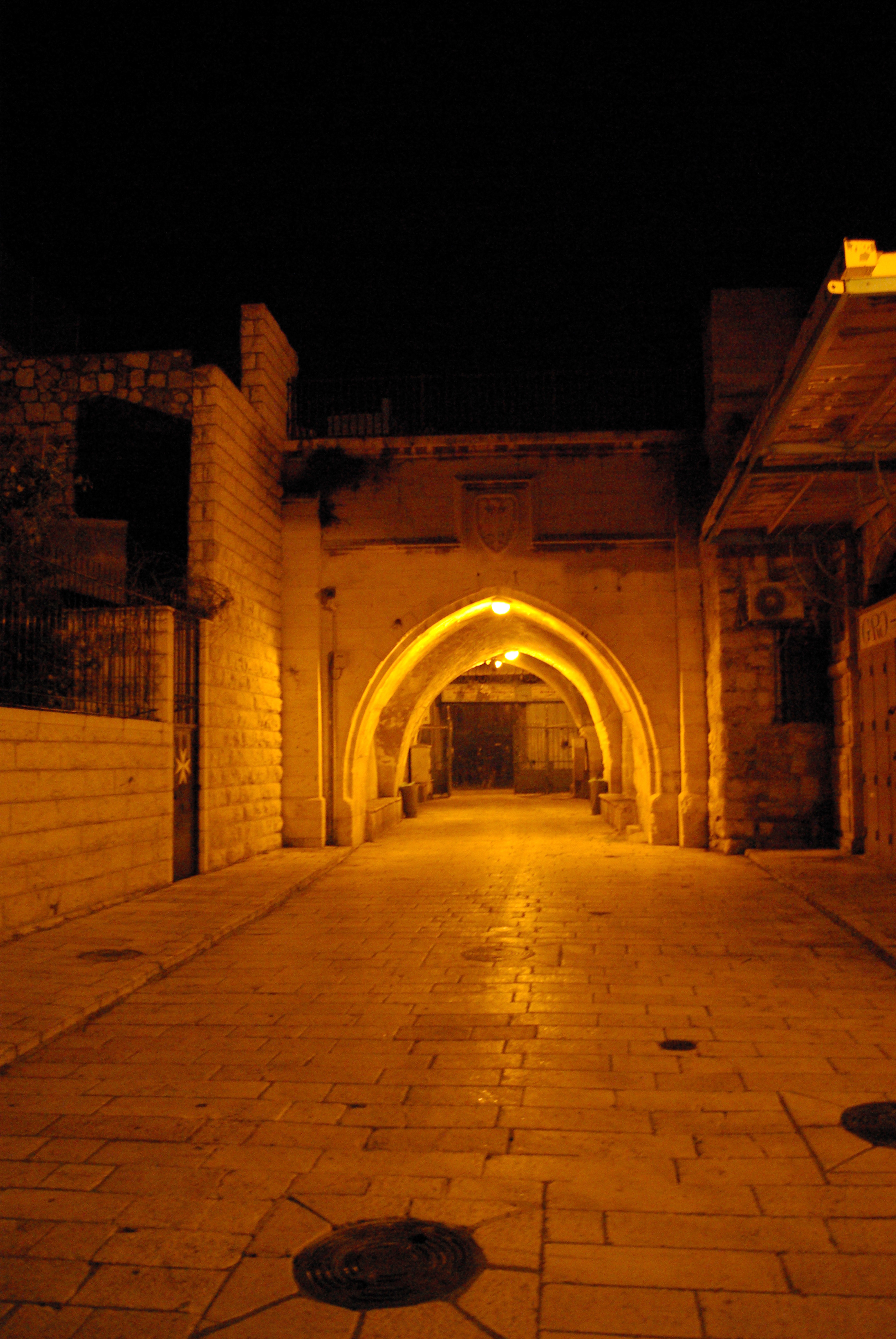 Old Jerusalem, Muristan gate, or William's Gate, at the south of Muristan street, by night